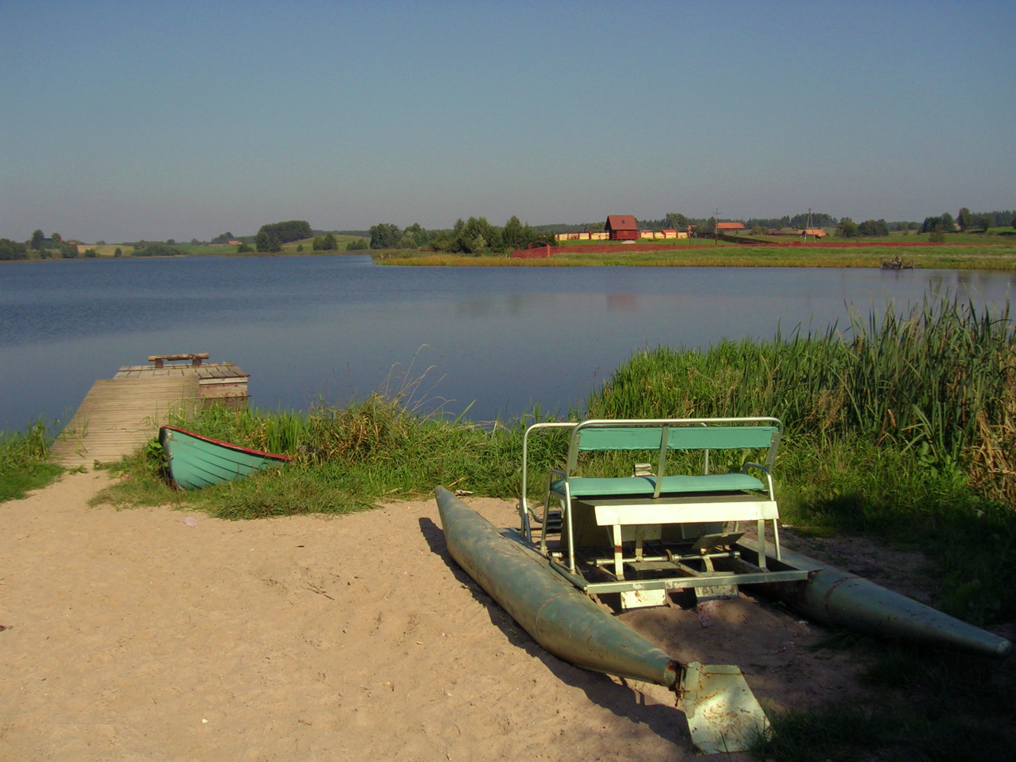 Village Wipsowo